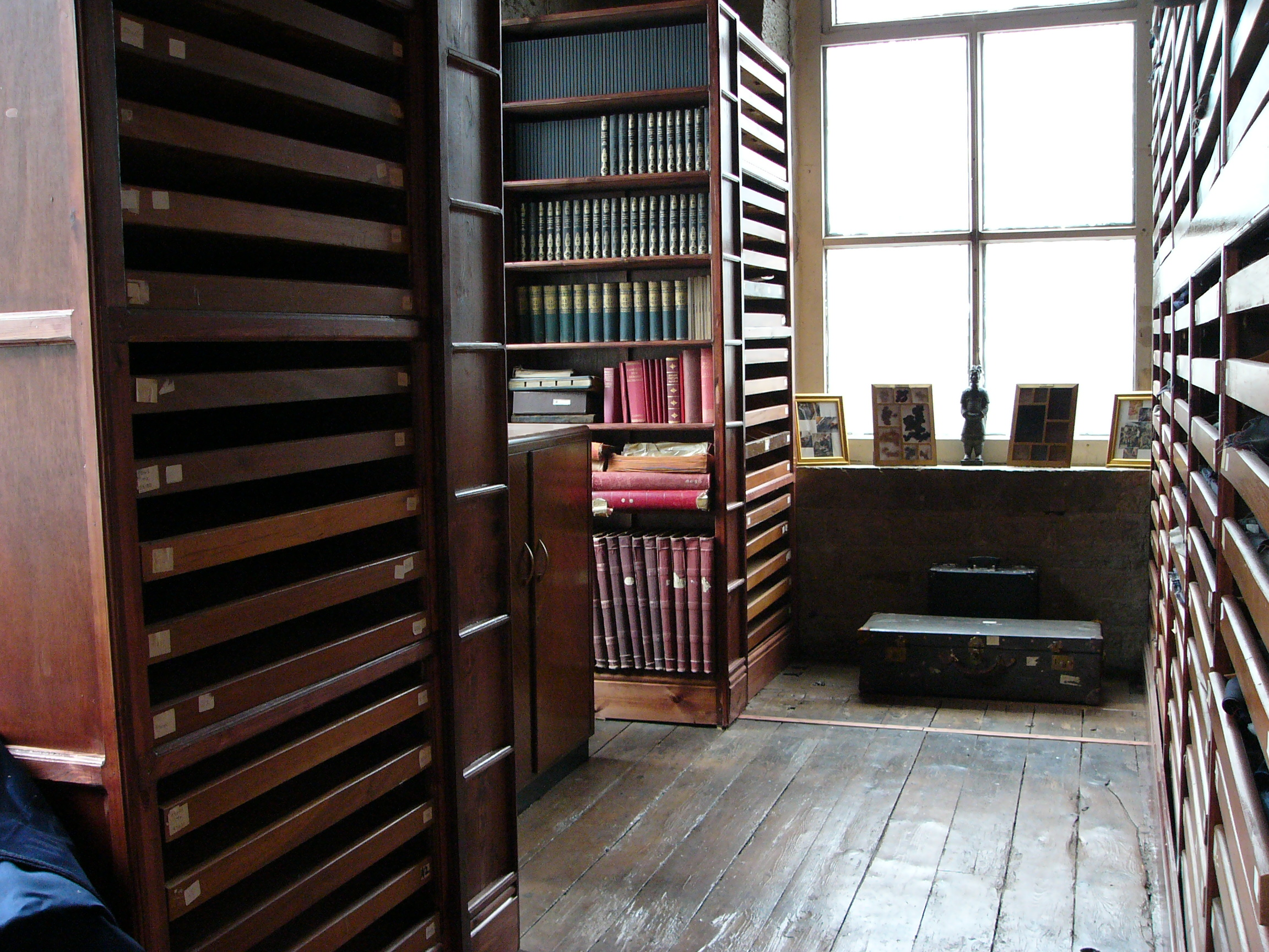 Photograph of the North Wing of the Moxon Library, taken at Yew Tree Mills, Holmbridge, Yorkshire, England, UK